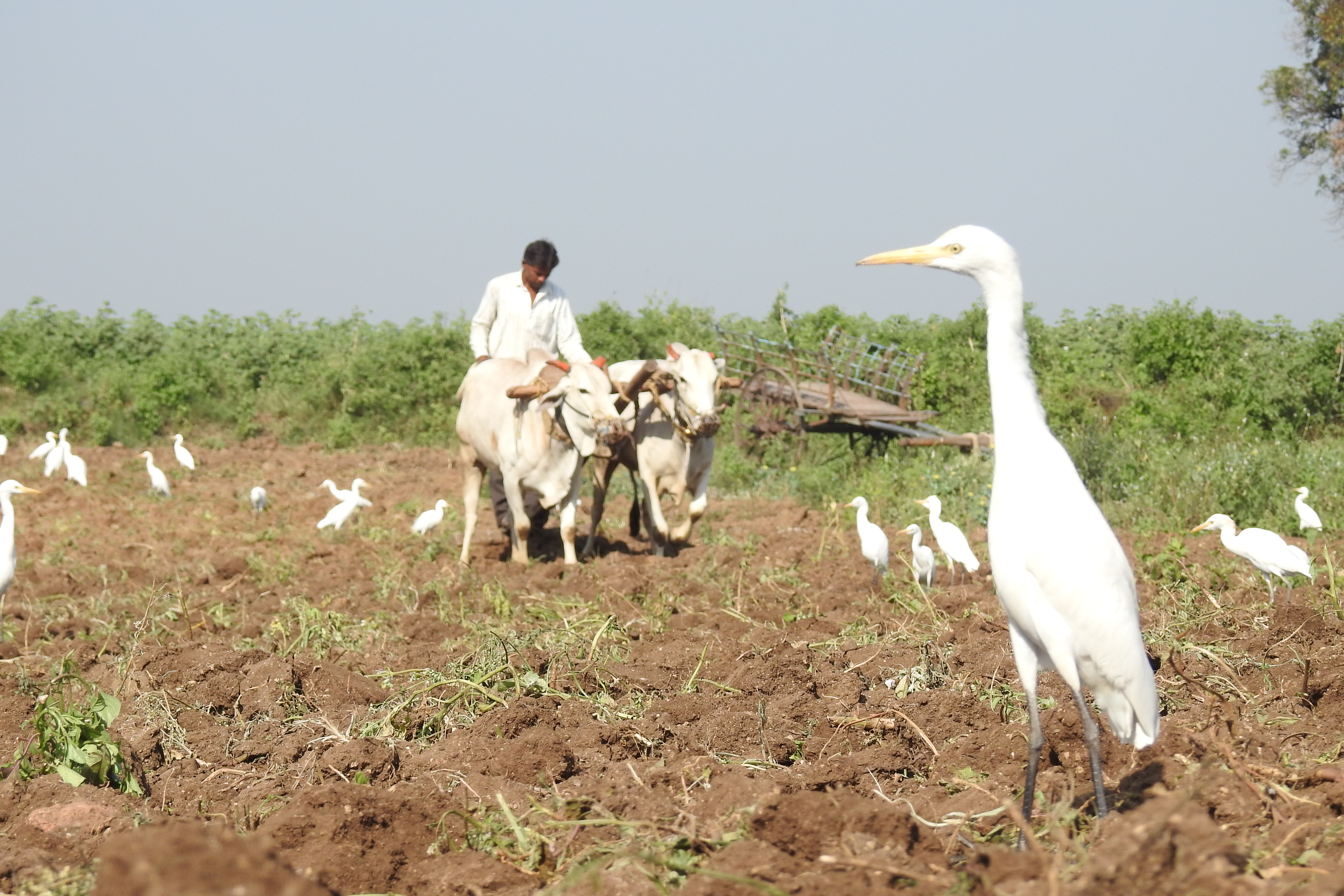 Photographed in Yavatmal district, Maharashtra, India.